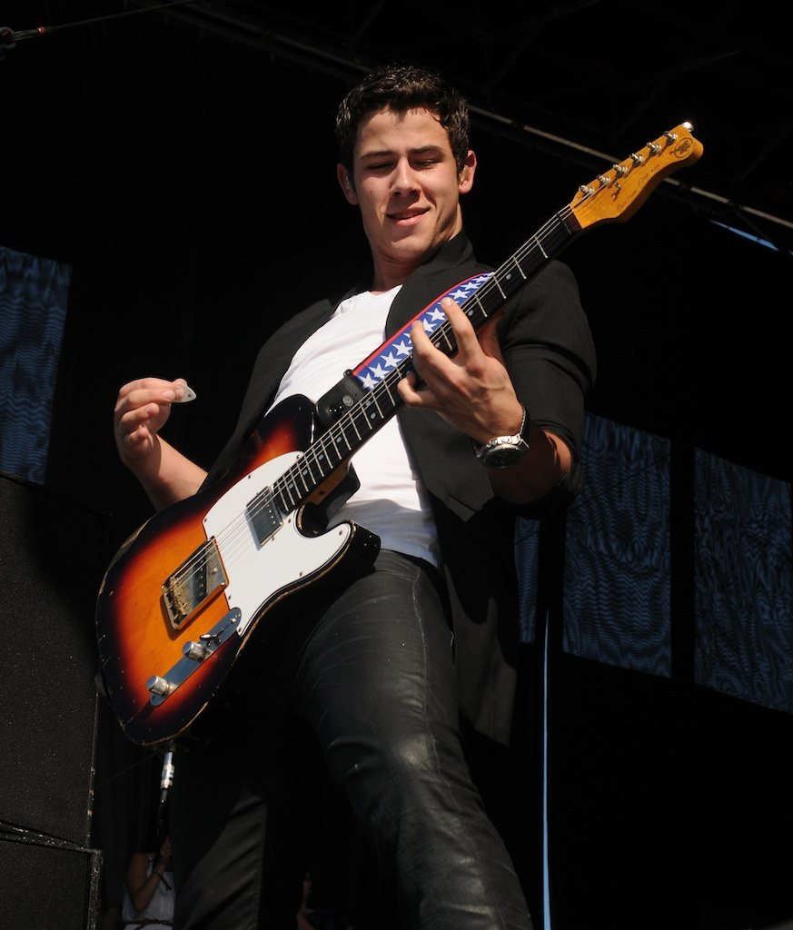 Nick Jonas at the 2011 Cisco Ottawa Bluesfest. By: Brennan Schnell